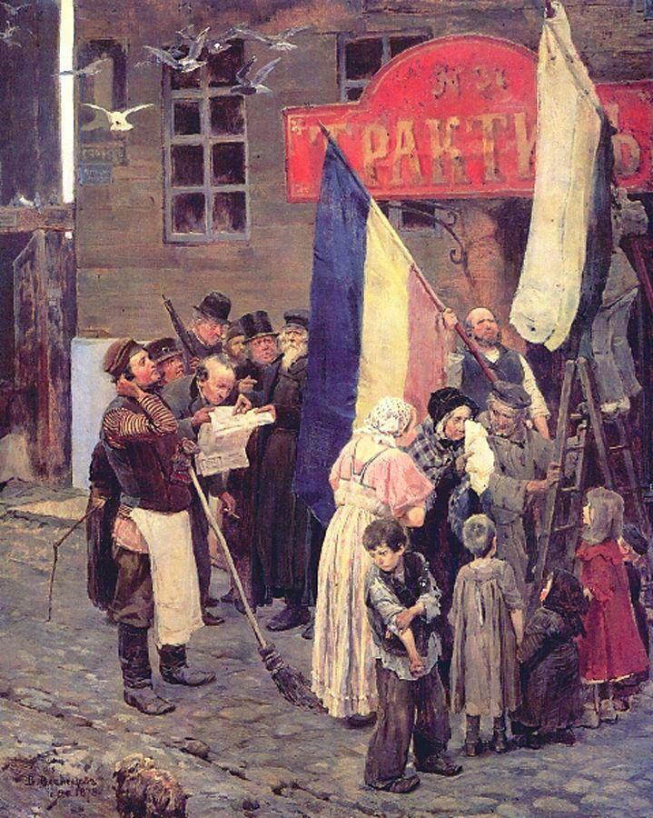 'News of the capture of Kars' (1878) Oil on canvas. The A. N. Radishchev Museum of Arts, Saratov, Russia.